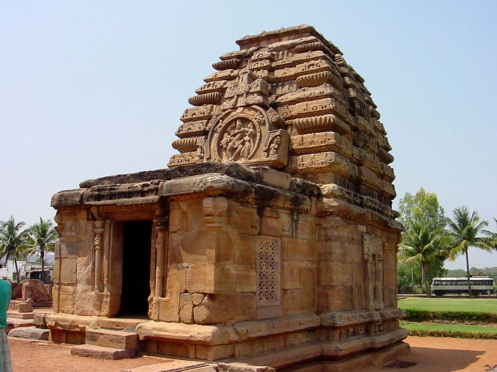 Jambulinga Temple, Pattadakal. This is practically the "twin" of Kaddasimbeshvara Temple just to the north, although the Jambulinga doorway guardians are missing. The tower's curving ribs are decorated with horseshoe-shaped blind arches. On the front (east) face of the tower is a large panel of Shiva dancing with Nandi and Parvati. A similar panel on the Kaddasimbeshvara tower is heavily damaged.